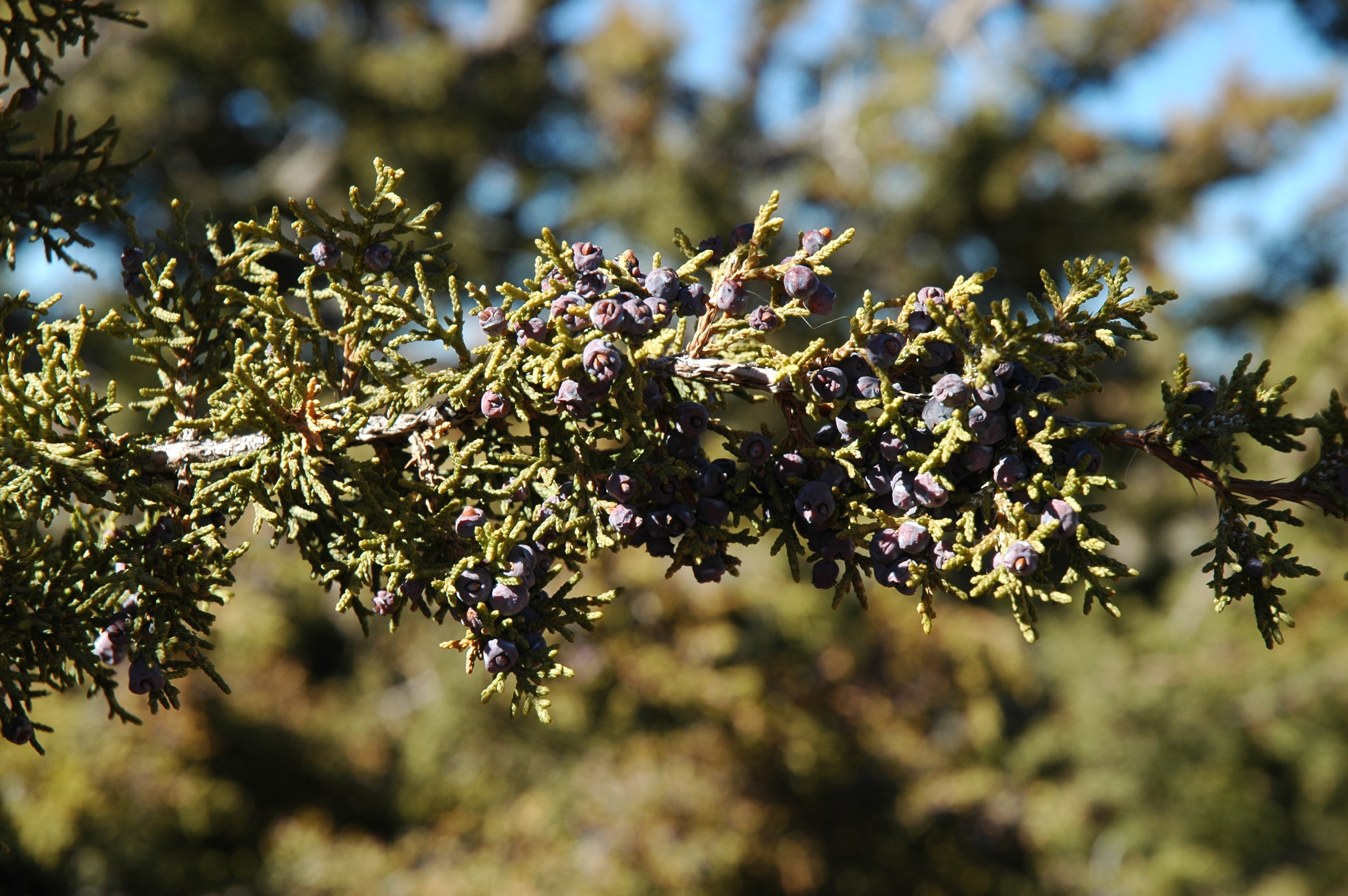 Juniperus scopulorum foliage and cones; many of the cones insect-damaged with the seeds protruding. Eldorado, Santa Fe, New Mexico.